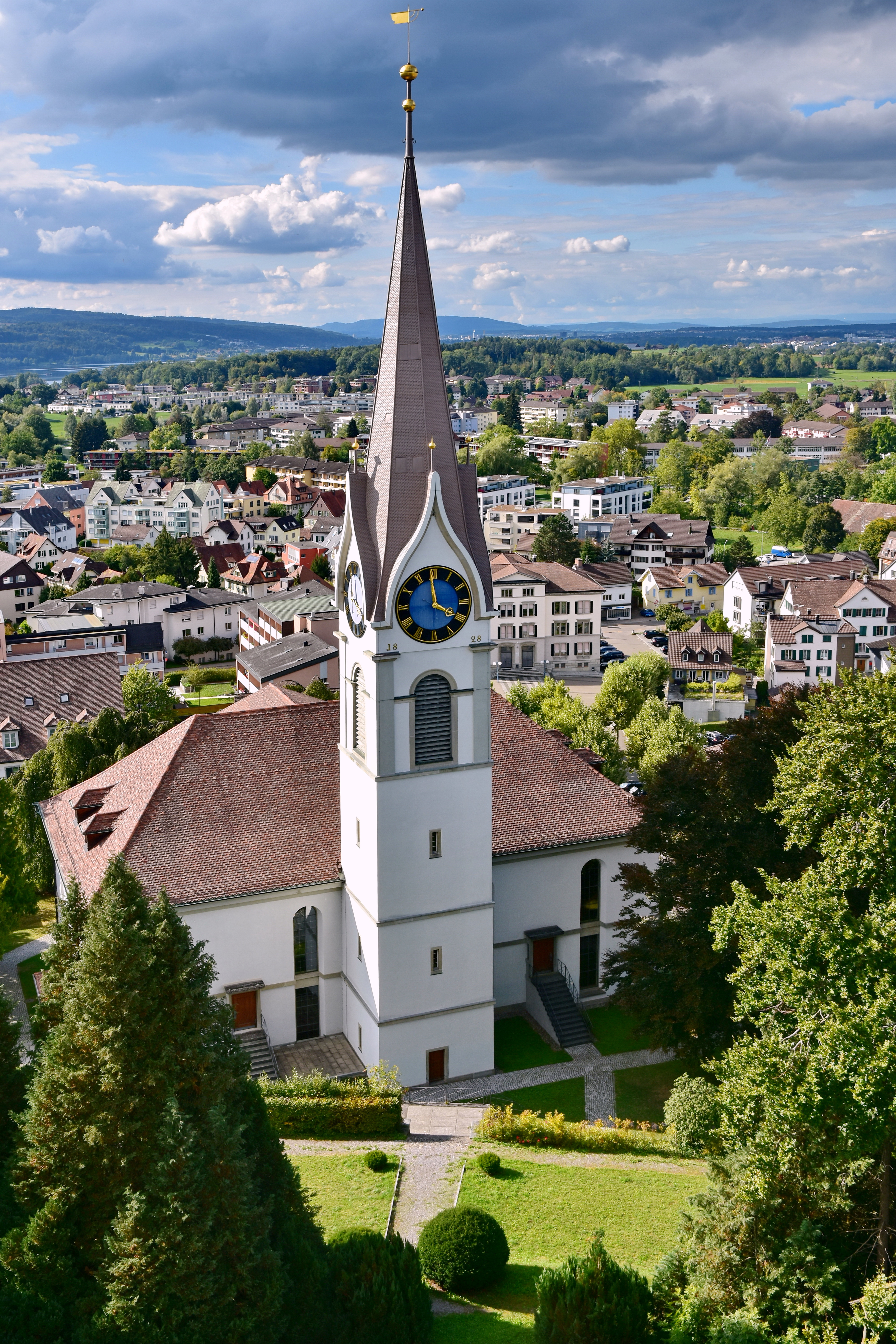 Reformierte Kirche as seen from the tower of the Castle (Schloss) in Uster